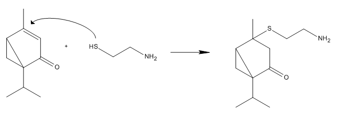 Cysteamine